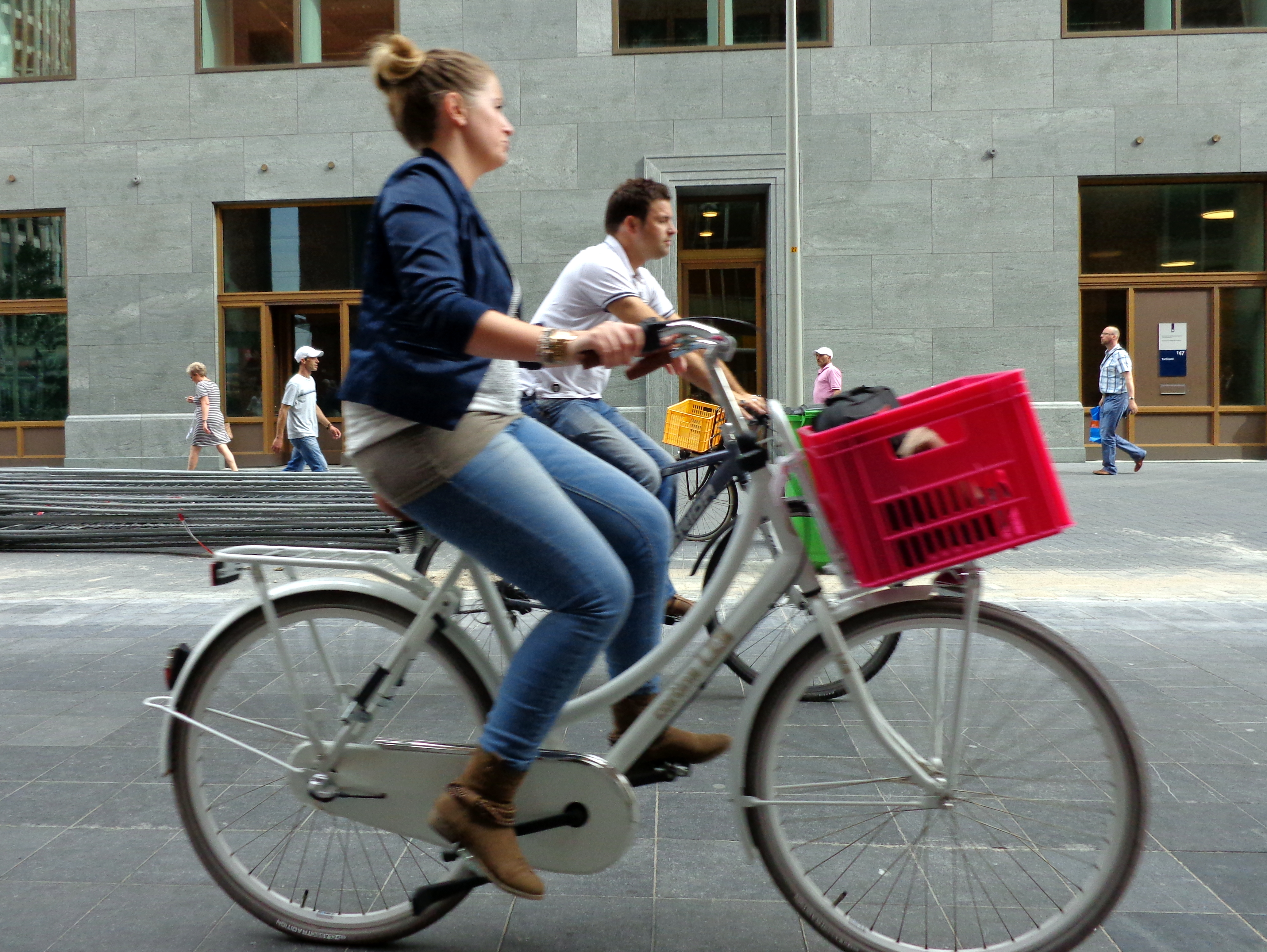 Bicycle in The Hague city-centre